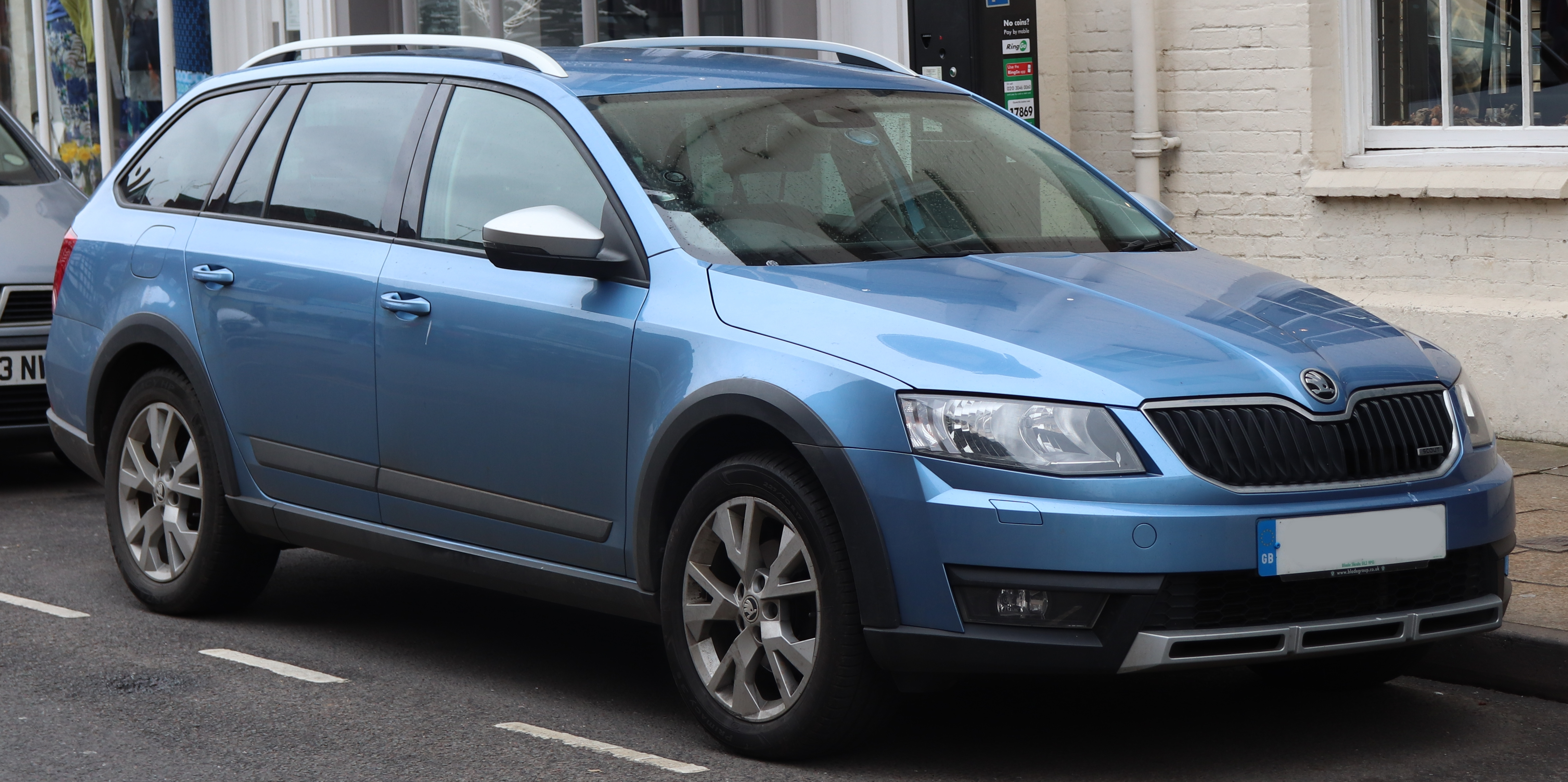 2016 Skoda Octavia Scout TDi 4X4 2.0 Front Taken in Warwick